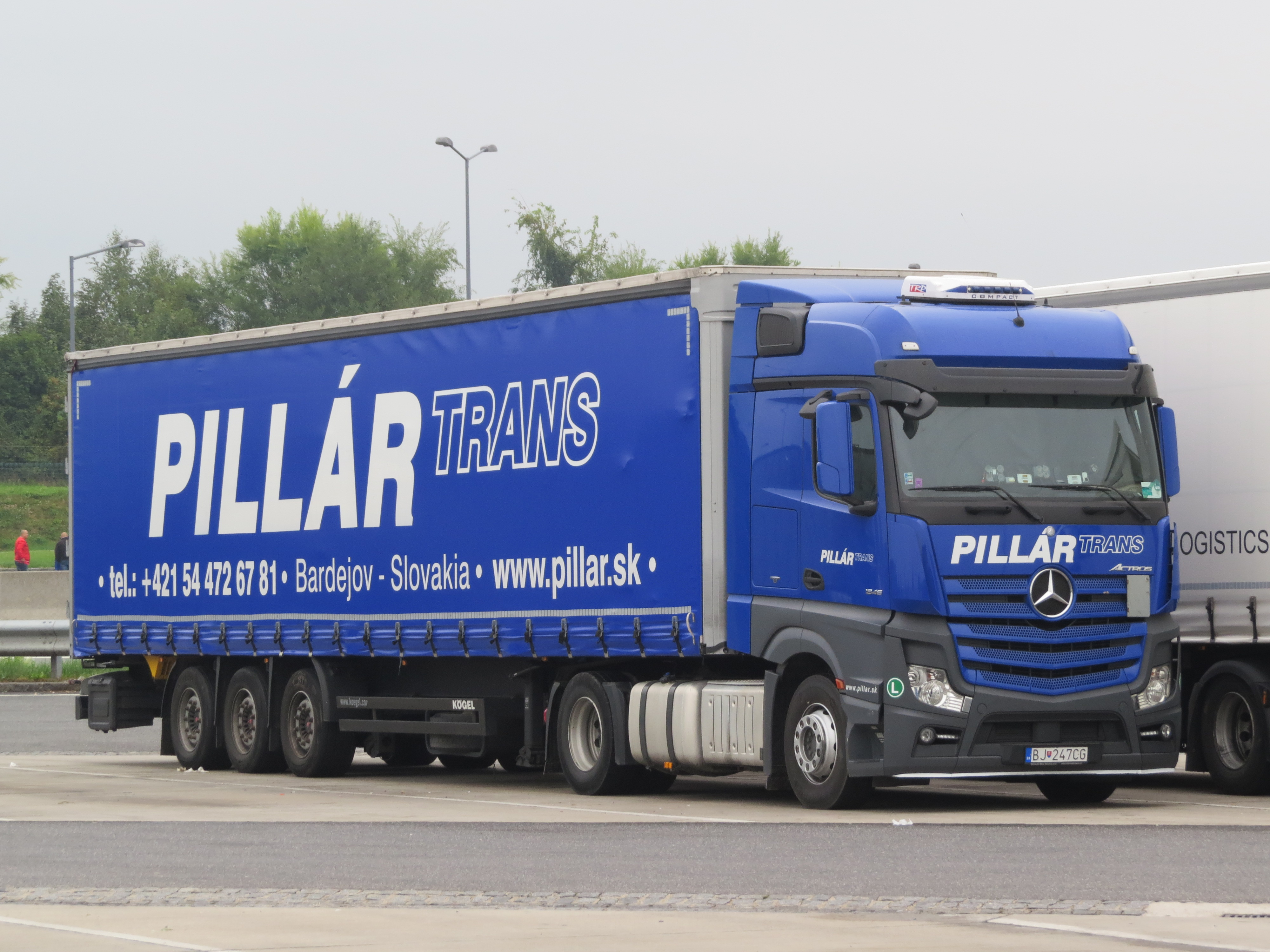 Mercedes-Benz Actros 1845 of Pillar trans at ASFINAG Raststation Viehdorf, Austria